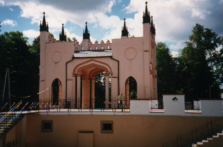 Dowspuda, Pałac Paca